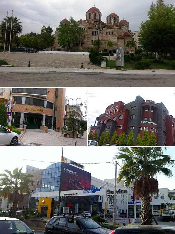 metamorfosi